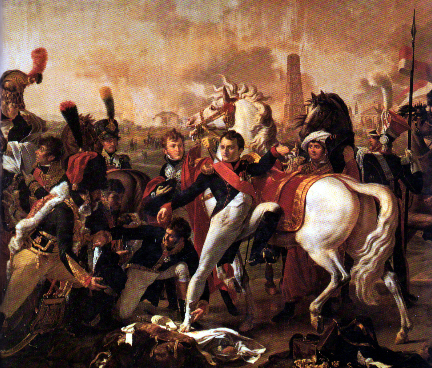 Napoleon wounded before Ratisbon (1809)